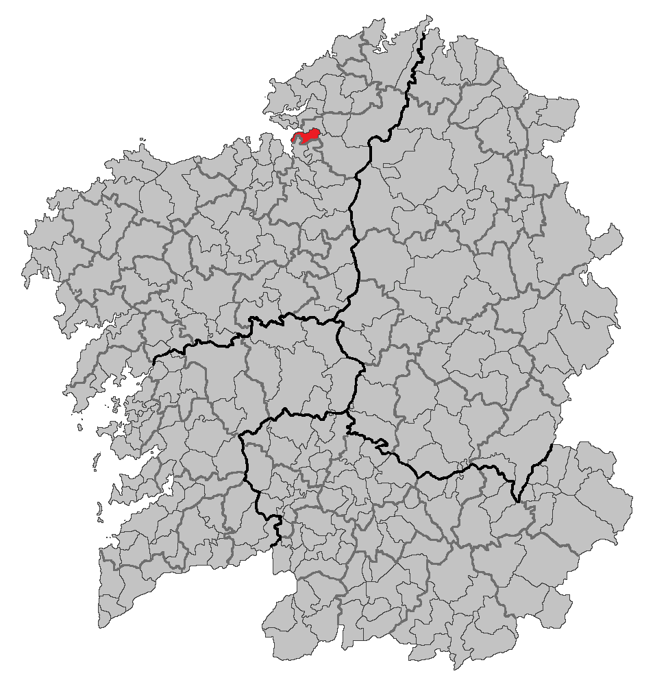 Location map of Pontedeume, A Coruña, Galicia